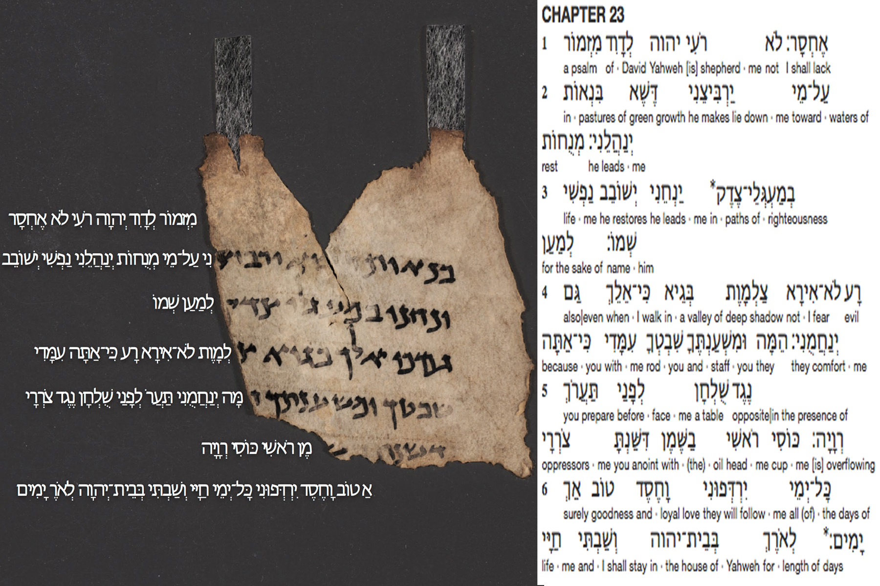 Dead Sea Scroll fragment 5/6HEV PS with Psalm 23.